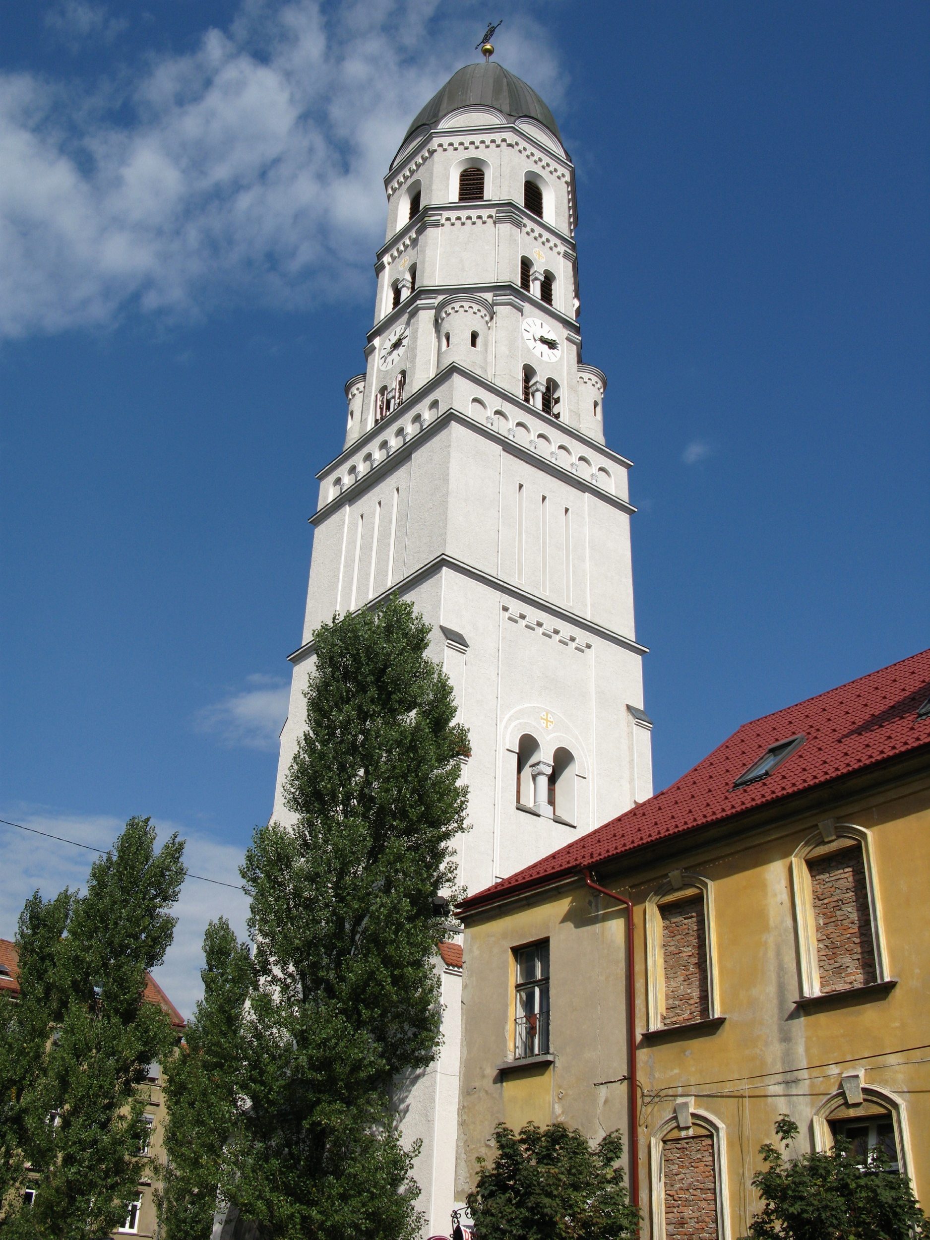 The tower of St. Joseph's Church in Ljubljana.